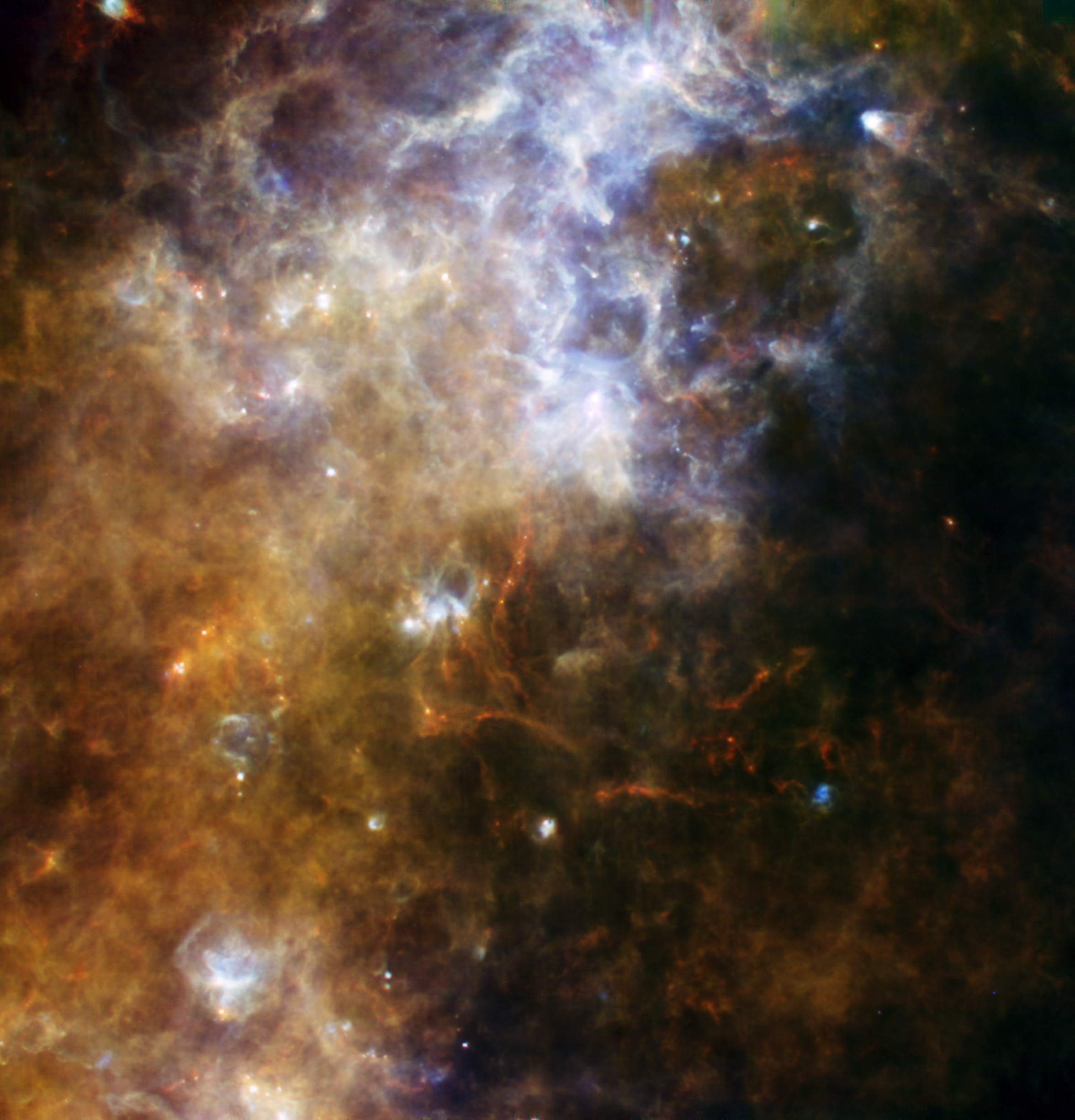 Some of the coldest and darkest dust in space shines brightly in this infrared image from the Herschel Observatory, a European Space Agency mission with important participation from NASA. The image is a composite of light captured simultaneously by two of Herschel's three instruments -- the photodetector array camera and spectrometer, and its spectral and photometric imaging receiver. The image reveals a cold and turbulent region where material is just beginning to condense into new stars. It is located in the plane of our Milky Way galaxy, 60 degrees from the center. Blue shows warmer material, red the coolest, while green represents intermediate temperatures. The red filaments are made up of the coldest material pictured here -- material that is slightly warmer than the coldest temperature theoretically attainable in the universe. Light captured by the photodetector array camera and spectrometer is colored blue and green (blue represents 70-micron light, and green, 160-micron light). The light detected by the spectral and photometric imaging receiver is colored red (and shows the combined wavelengths of 250, 350 and 500 microns). The image spans a region 2.1 by 2.2 degrees.